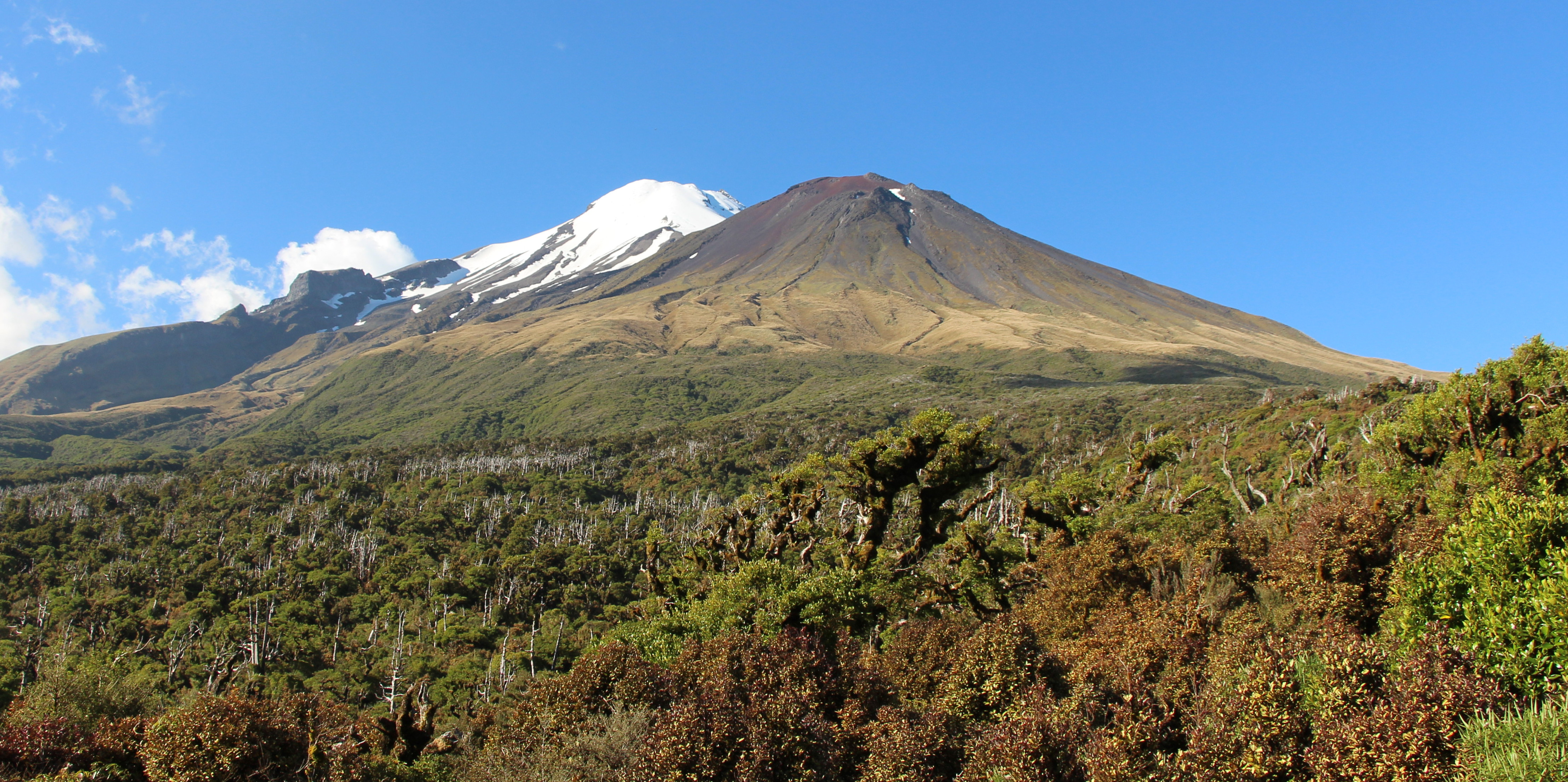 Mount Taranaki (left) & Fanthams Peak from Dive Lake. Egmont National Park, New Zealand